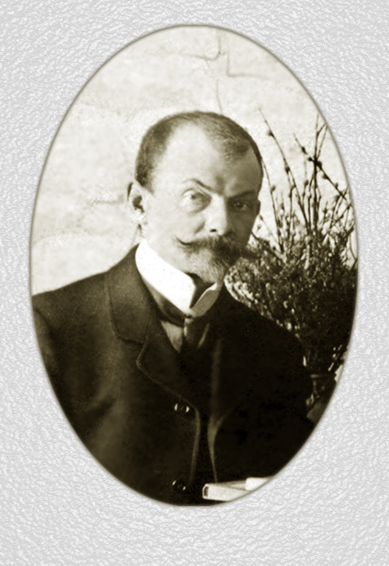 Udo Conrad von Körber